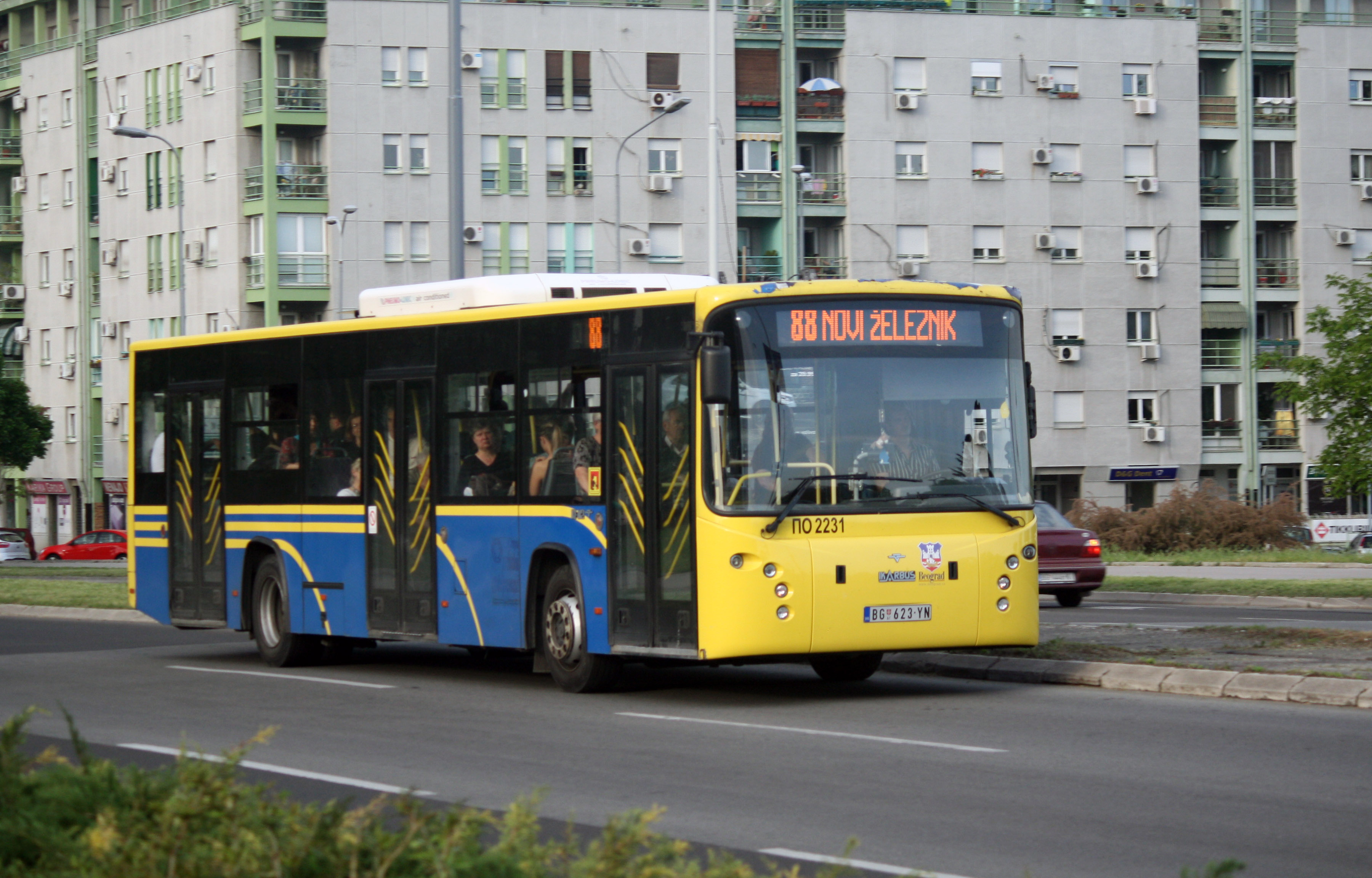 Ikarbus IK 112 bus of M&M trans from Belgrade.